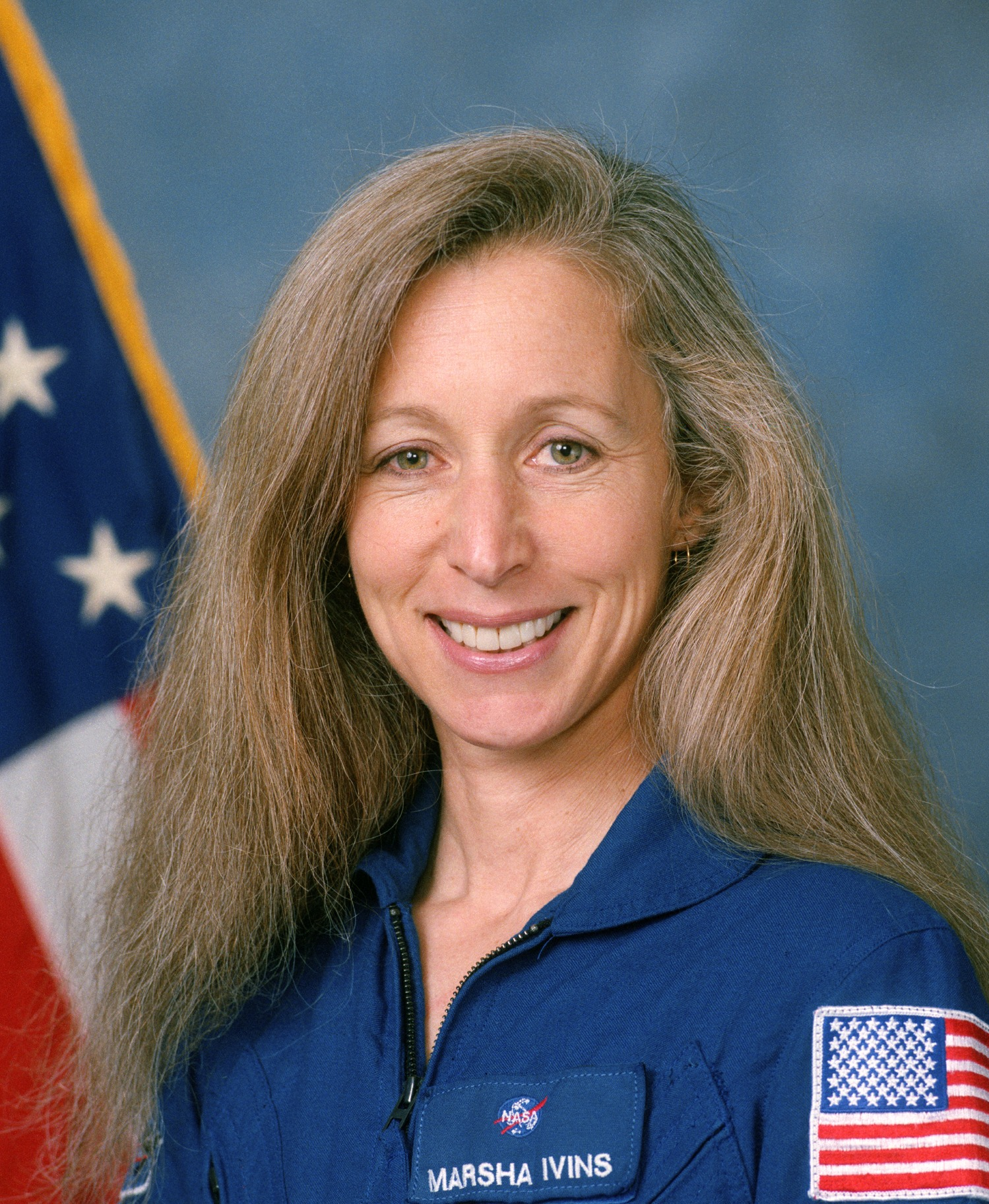 The photo of USA astronaut Marsha Ivins